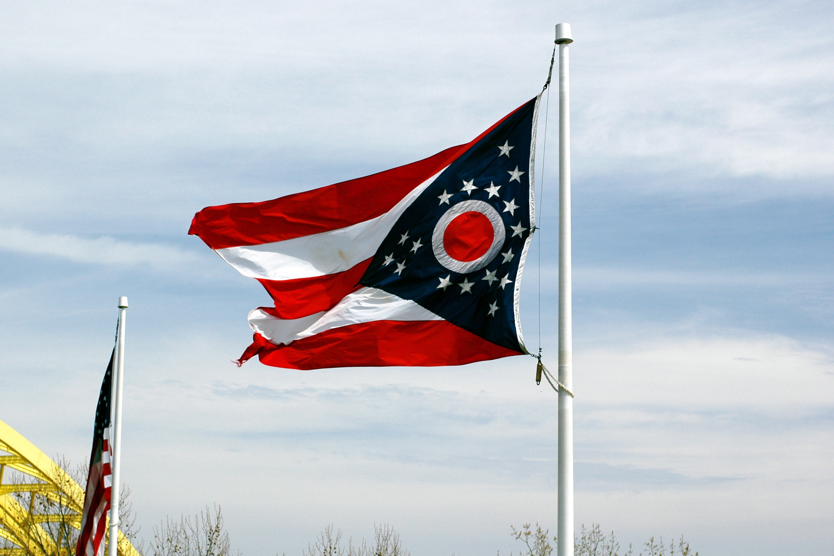 The flag of Ohio flies above the bronze statue of Lucius Quinctius Cincinnatus at Bicentennial Commons at Sawyer Point in Cincinnati, Ohio, United States. A flag of Cincinnati flies nearby.